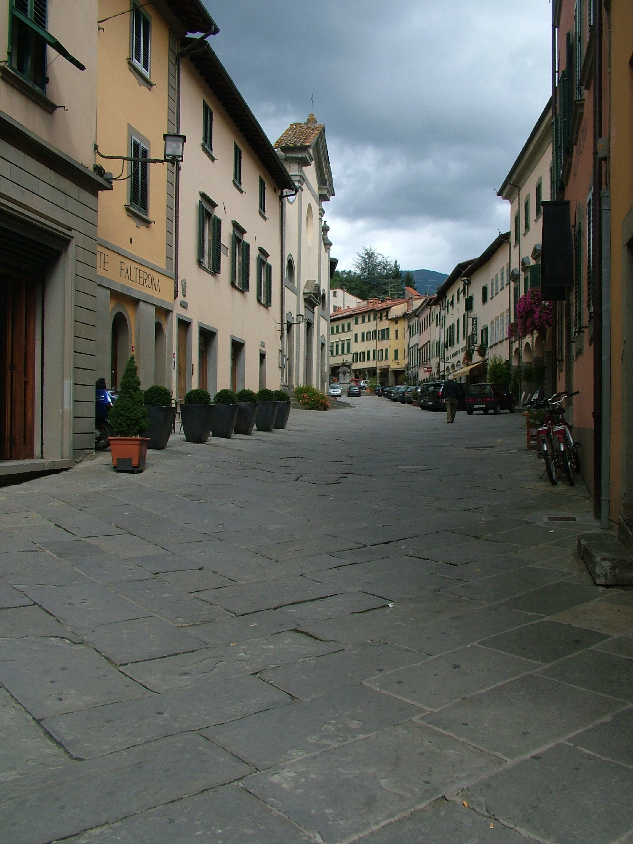 Photo of Stia Piazza, Tuscany. View looking North